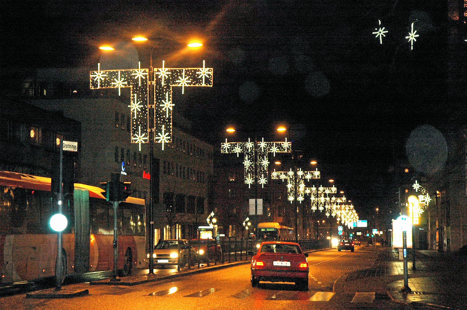 Drottninggatan in Linköping, Sweden, with Christmas lights